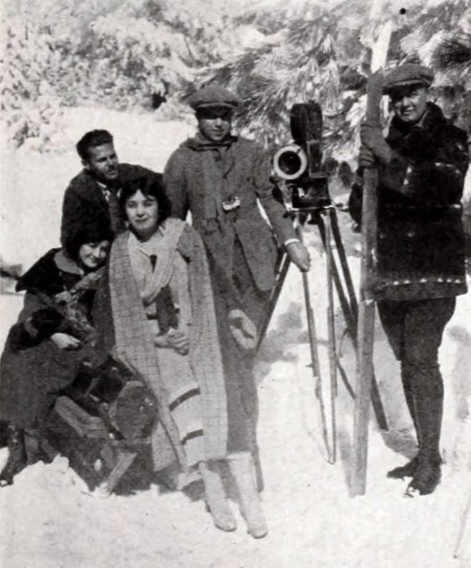 Production still from the American drama film The Real Adventure (1922) with Florence Vidor, director King Vidor, and cinematographer George Barnes, on location in Pinecrest, California, on page 41 of the March 25, 1922 Exhibitors Herald.